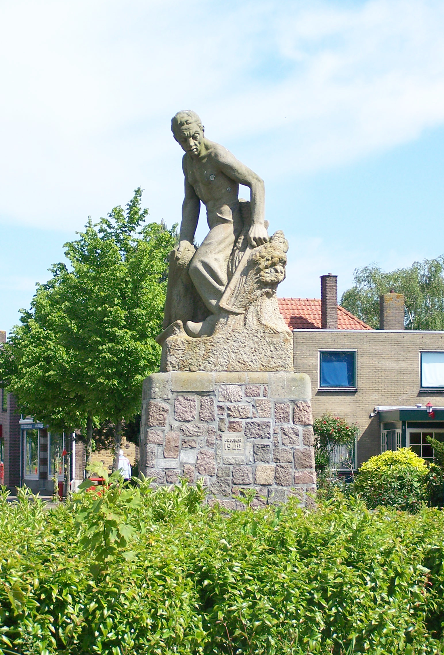 Sculpture "De Maaier" by Theo van Reijn in 1941 at the Ir. Smedingplein in Wieringerwerf.